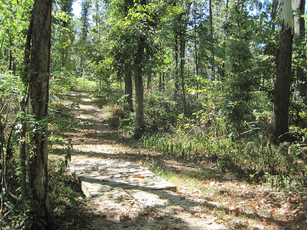 Lake Frierson State Park south of Paragould, Arkansas. Trail